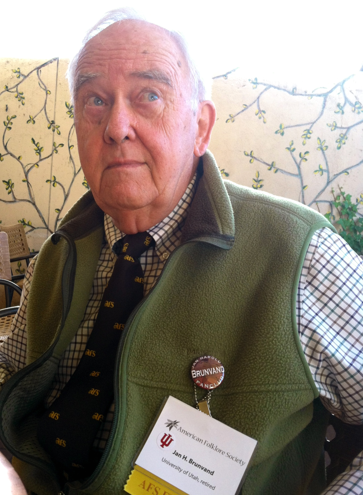 Folklorist and urban legend expert Jan Brunvand at an American Folklore Society conference in Santa Fe, New Mexico, on November 8, 2014.